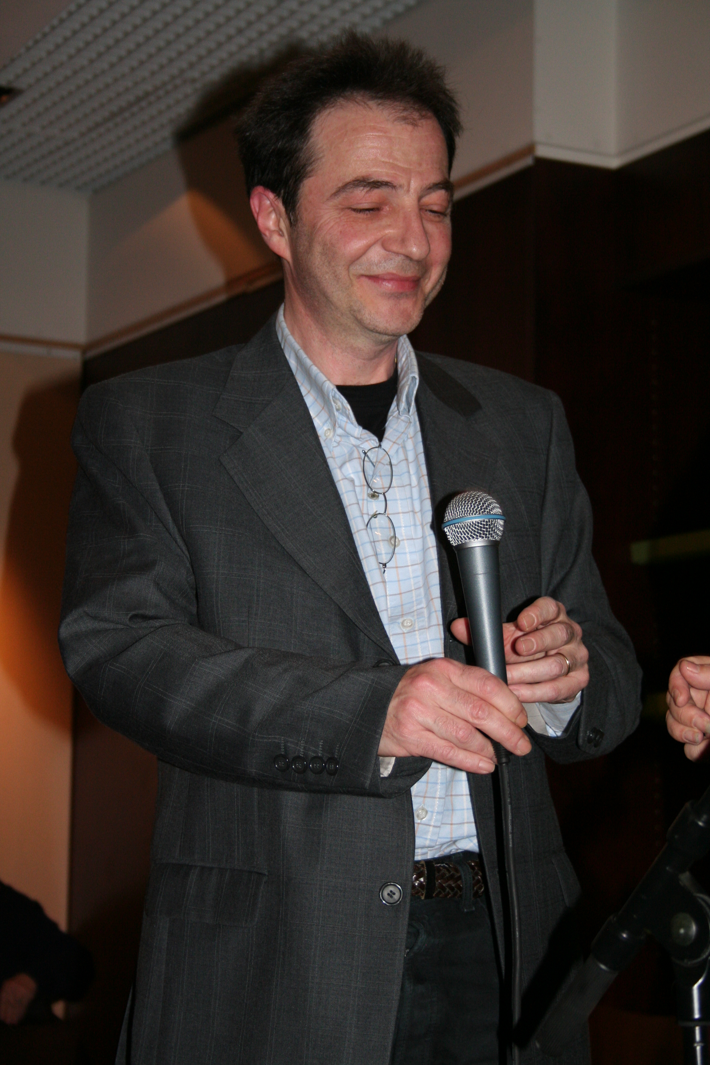 Show-case with Anne Ducros, Olivier Hutman and Kazumi Watanabe at Fnac Italie (Paris, France).